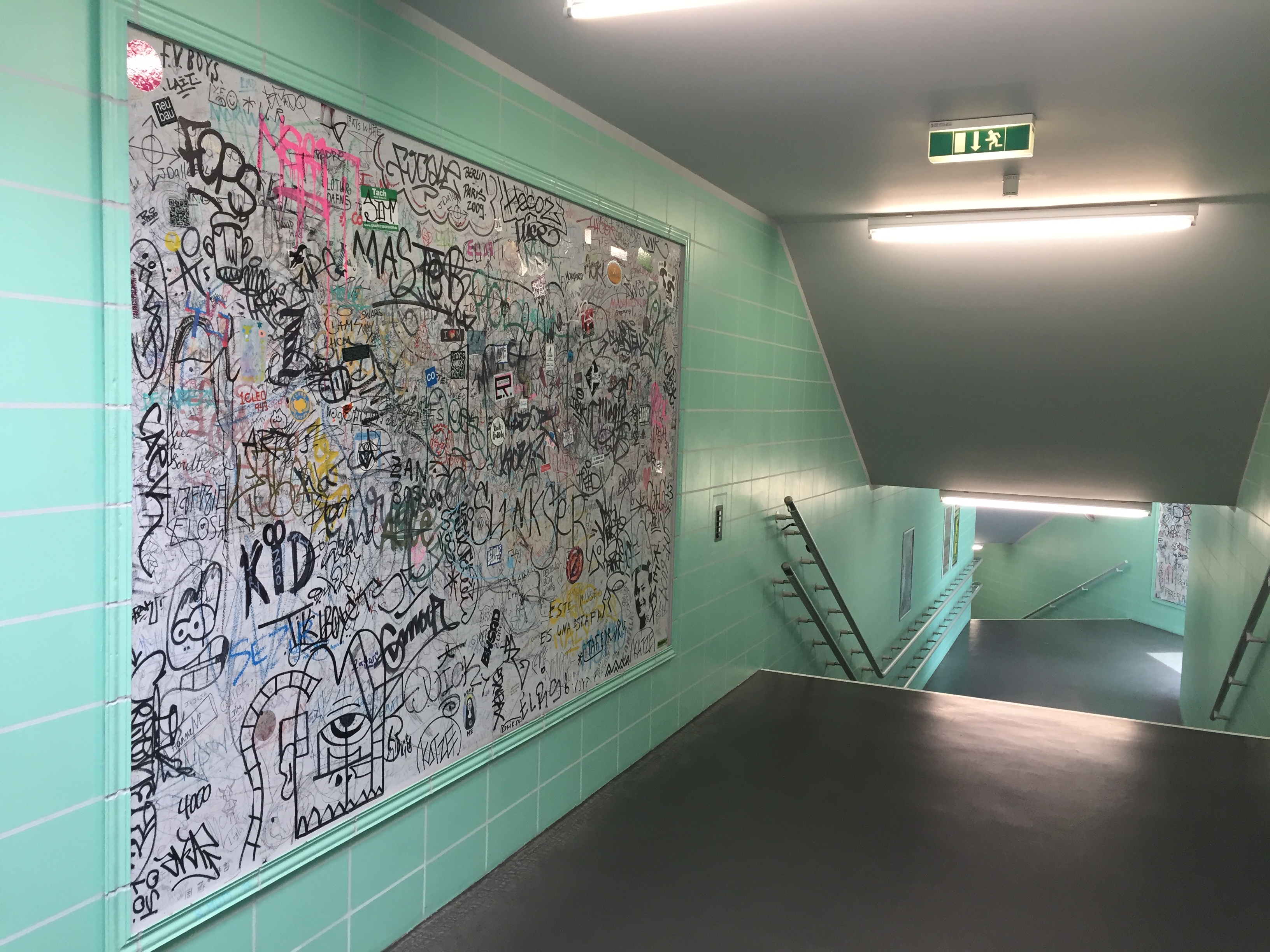 Views of the Rieckhallen of the Hamburger Bahnhof – Museum für Gegenwart – Berlin museum in Berlin, Germany.